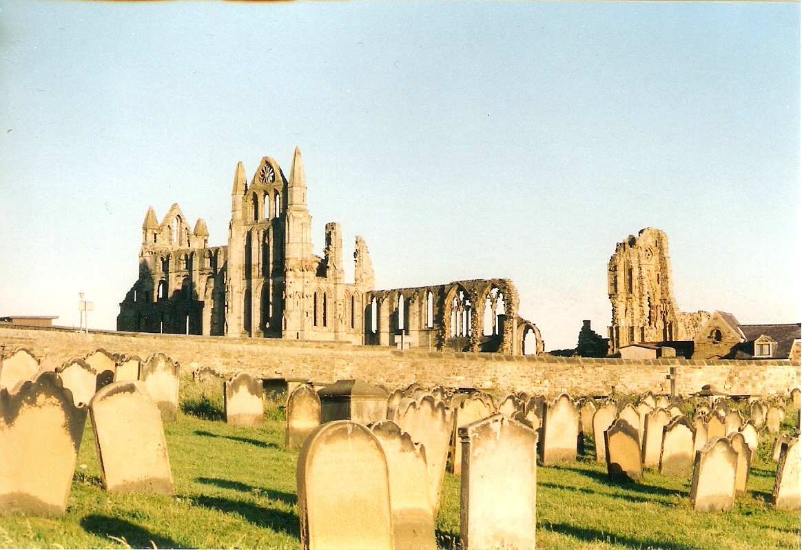 Whitby Avenue from opposite headland